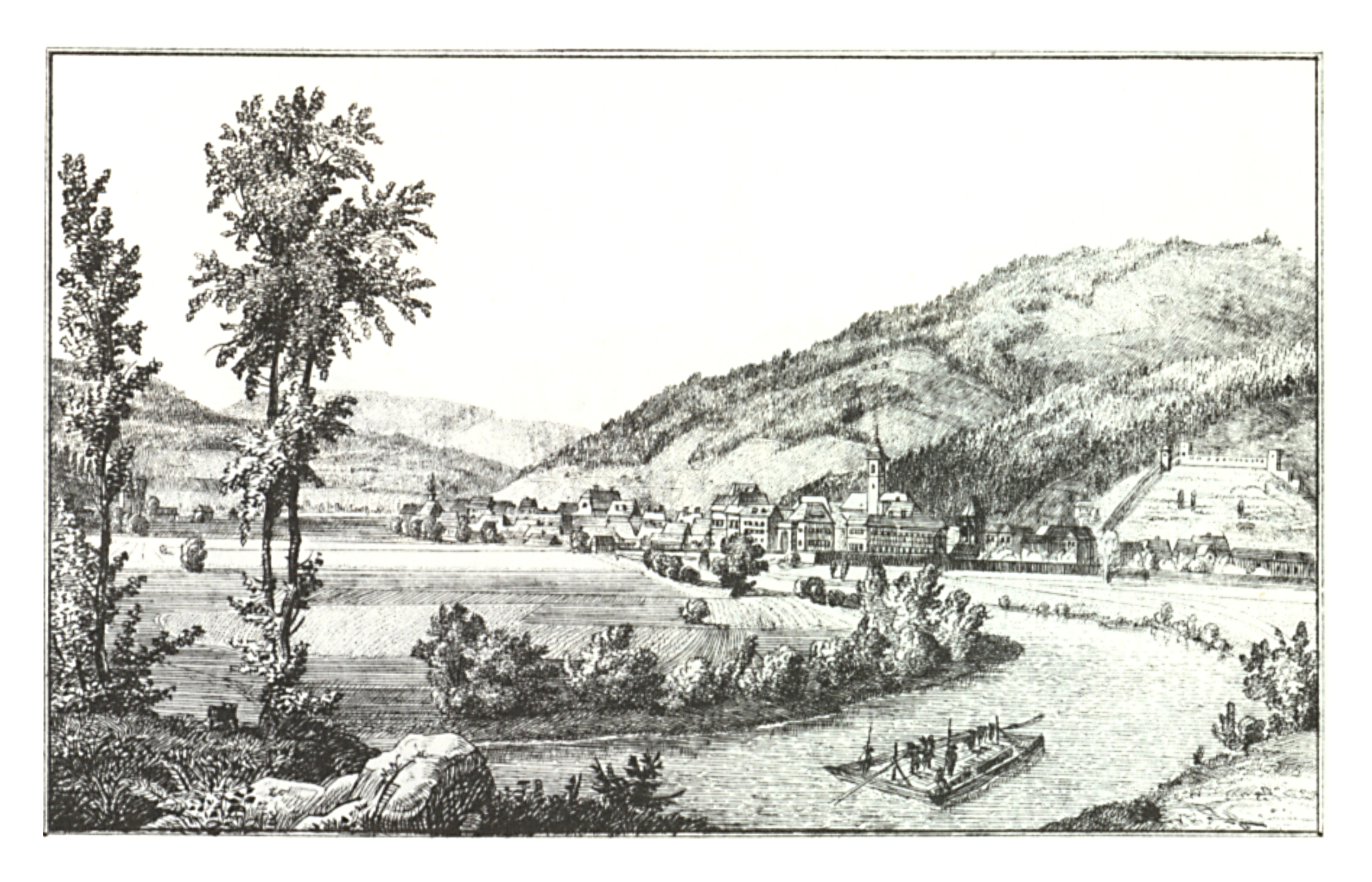 J. F. Kaiser - lithographirte Ansichten der Steyermärkischen Städte, Märkte und Schlösser Graz, 1825 Scanprojekt Community Projektbudget 2012 This scan or this PDF-file was created within the GLAM-project Bookscanning, supported by Wikimedia Germany and Wikimedia Austria as a part of the community-project to capture books, documents and pictures which are not eligible to copyright or for which the copyright has expired. This document describes or depicts an object which is located in Austria today. Send requests for uncompressed scans to Hubertl. This work is in the public domain in its country of origin and other countries and areas where the copyright term is the author's life plus 100 years or less. You must also include a United States public domain tag to indicate why this work is in the public domain in the United States. This file has been identified as being free of known restrictions under copyright law, including all related and neighboring rights.